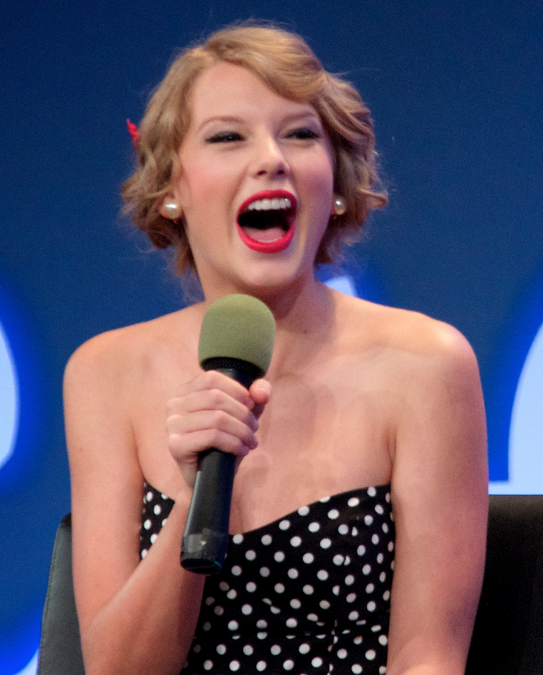 YouTube Presents Taylor Swift in September 2011.